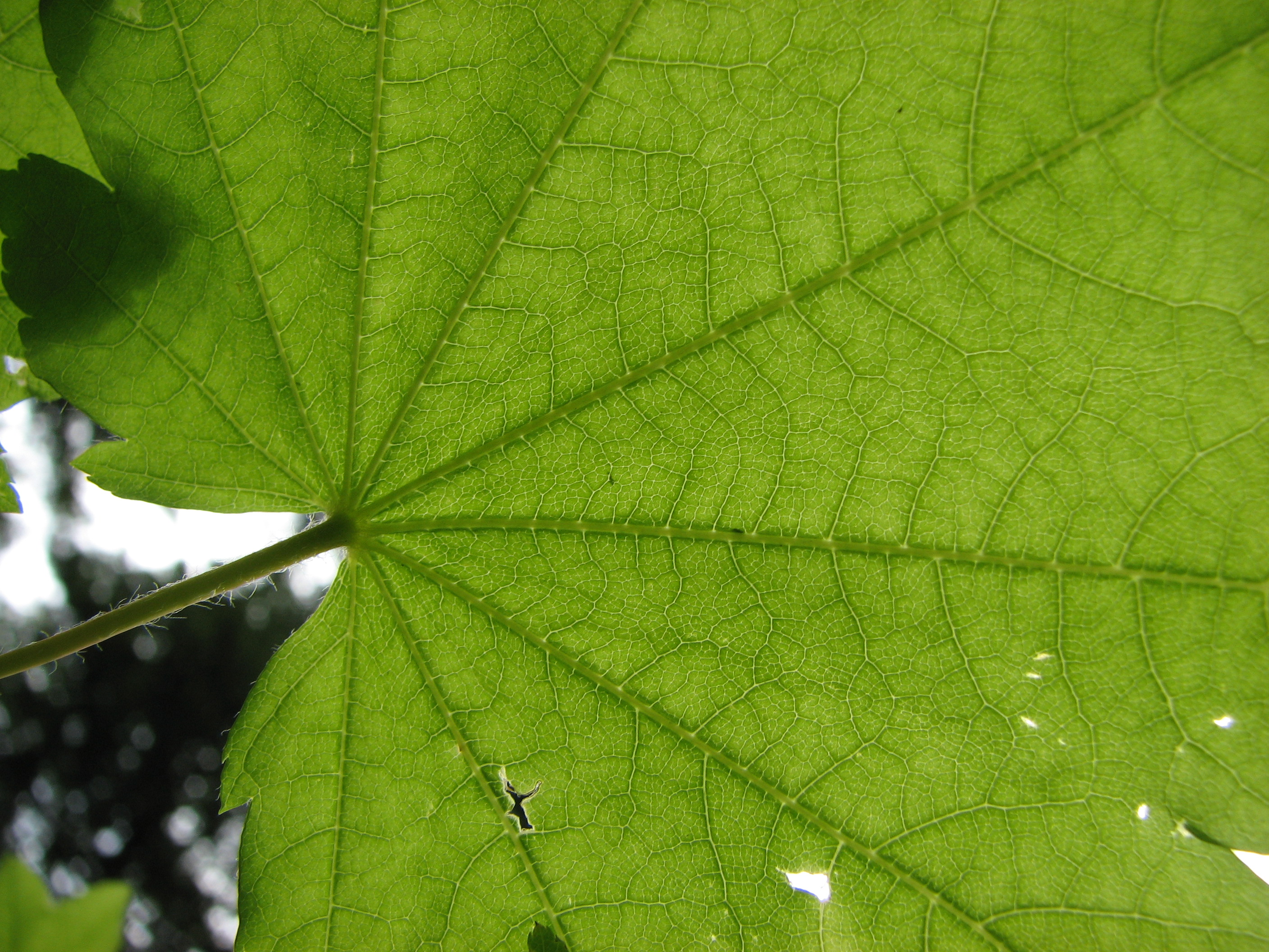 Veins of an unidentified green leaf.